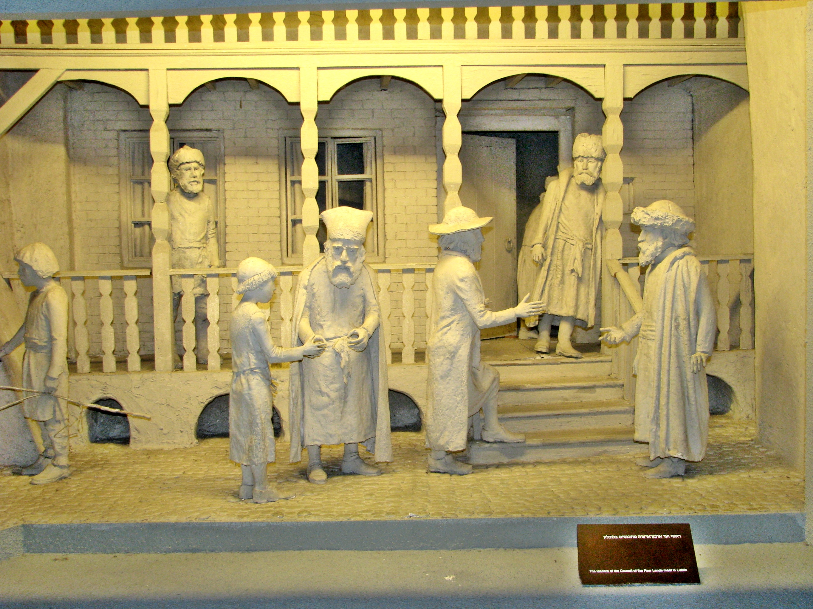 This is a photo of an exhibit at the Diaspora Museum, Tel Aviv - Beit Hatefutsot. It depicts the meeting of the leaders of the Council of Four Lands at Lublin